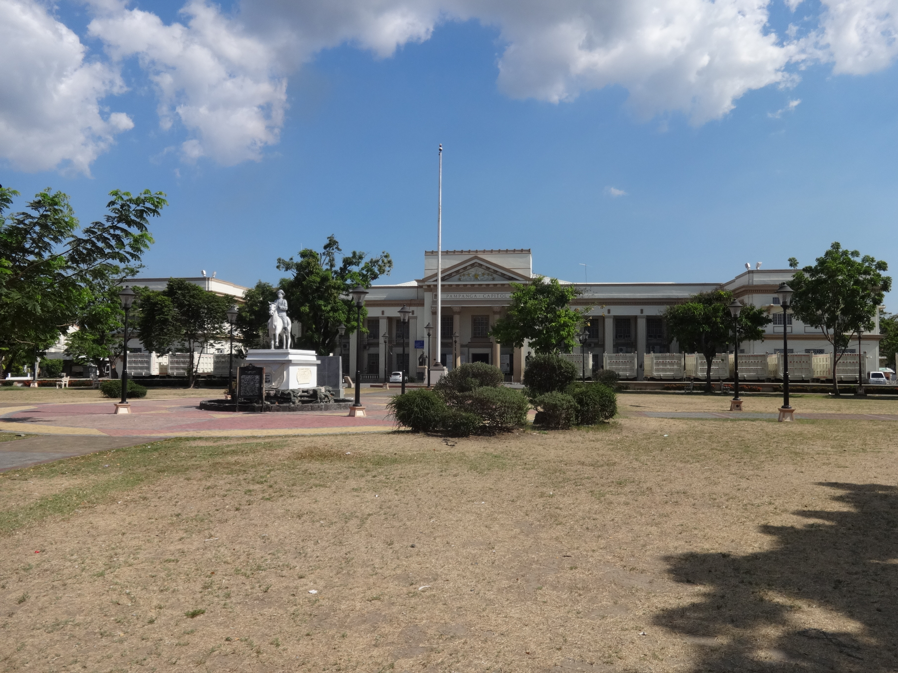 Pampanga Provincial Capitol building at Capitol Boulevard, City of San Fernando, Pampanga